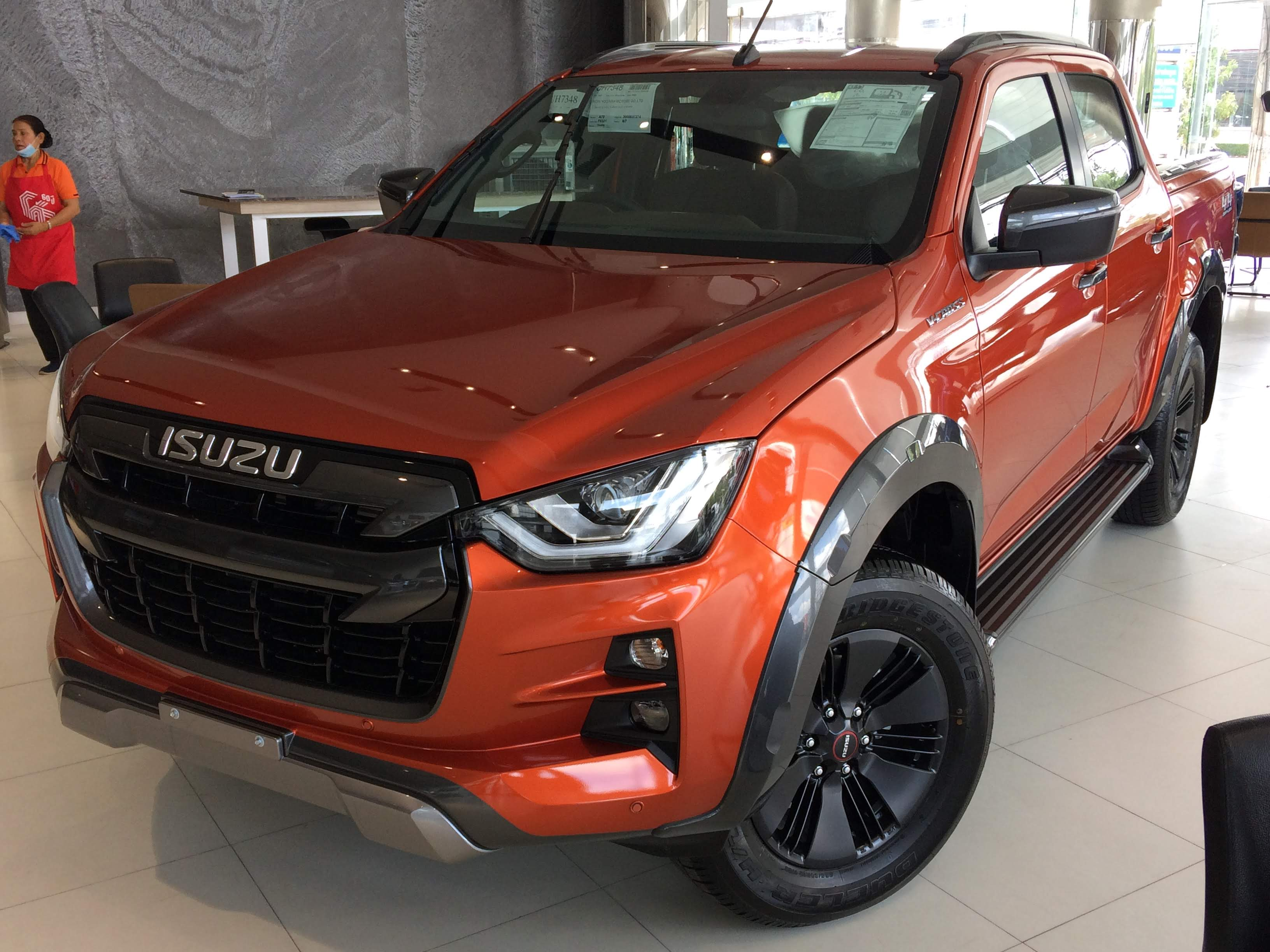 2019 Isuzu D-Max V-Cross 4-Door 3.0 Ddi M in Kow Yoo Hah Motors, Khon Kaen, Thailand.